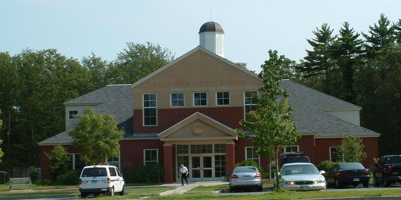 Abington Town Hall, Abington, Massachusetts.